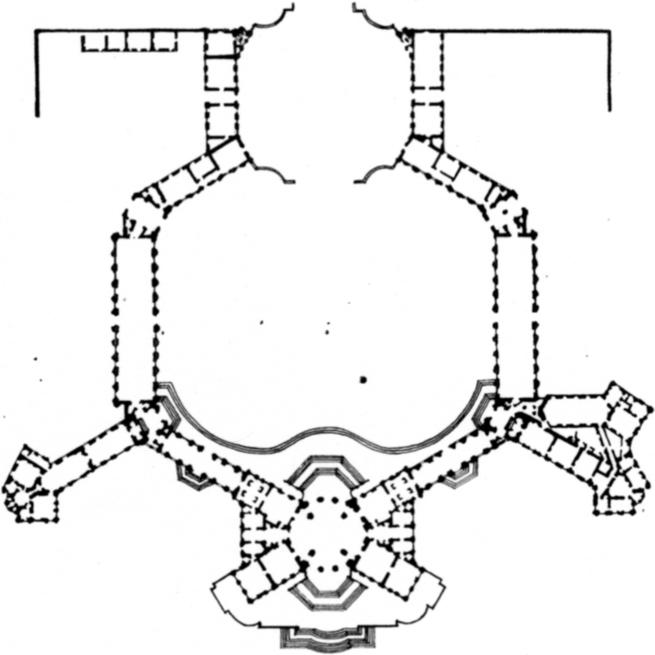 Château Stupinigi, plan.